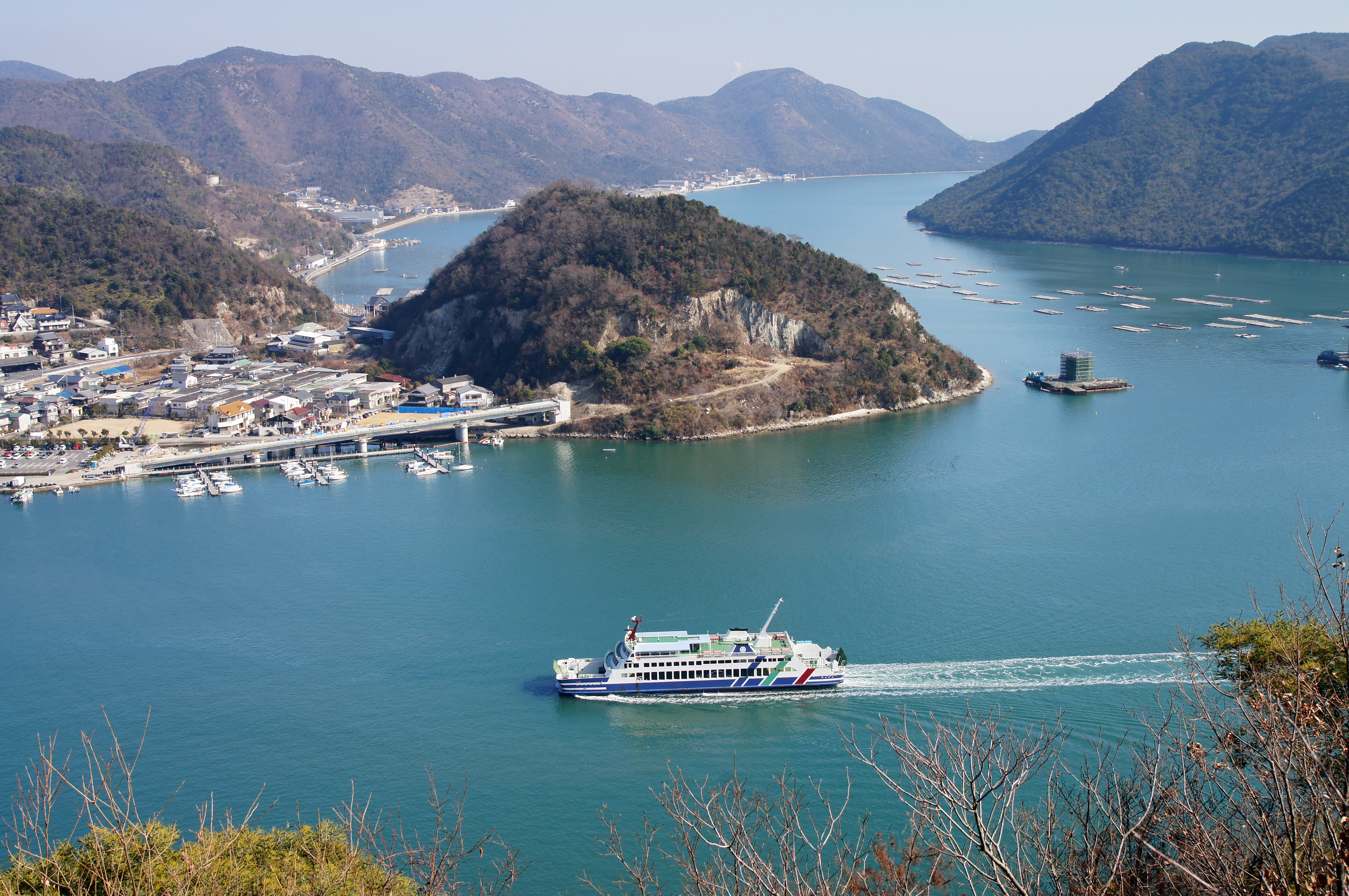 Hinase Bay at Hinase, Bizen, Okayama prefecture, Japan